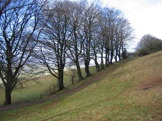 Beech Row. This row of beech trees at the Draycott Sleights nature reserve runs along the Mendip hillside just below the top and above the village of Draycott. It can be clearly seen from several miles away when down on the Somerset Levels.